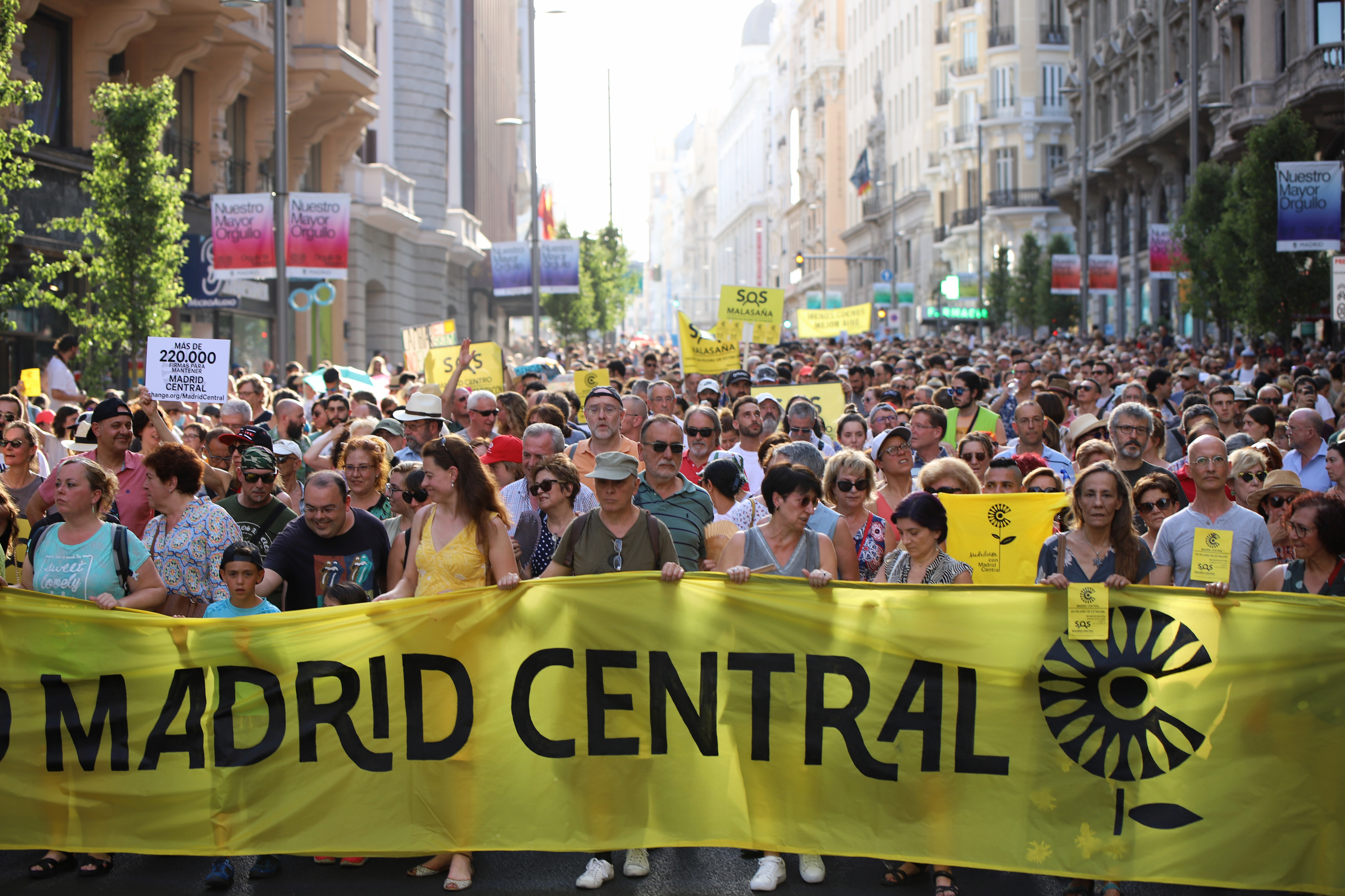 In Madrid about 60000 people demonstrate for the preservation of the inner-city environmental zone Madrid Central. The newly elected right-wing government of the city of José Luis Martínez-Almeida wants to impose a moratorium, although the air values in the city centre have recovered significantly since the introduction of the zone.